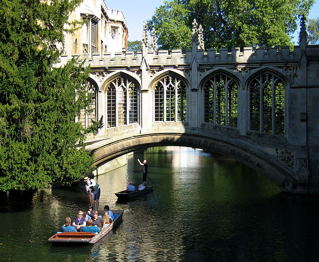 The Bridge of Sighs spanning the River Cam lead to the New Court of St John's College. The bridge, built in the 1830s, is inspired by the original Bridge of Sighs in Venice.